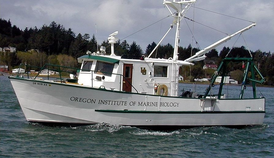 OIMB's research vessel